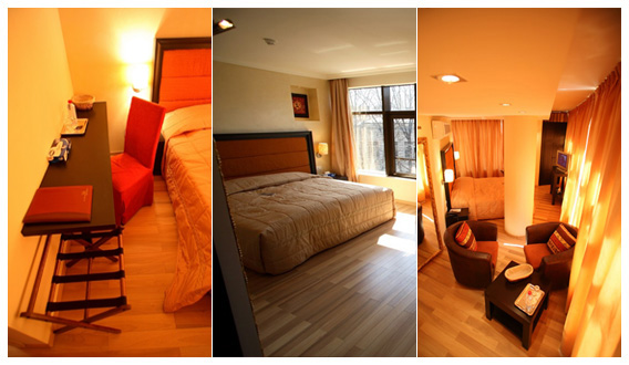 Four star hotel in Bucharest, centrally located. Accommodations for business people who require luxury and privacy in Romania. Amenities include wireless internet, lobby, lounge, fitness club and sauna.